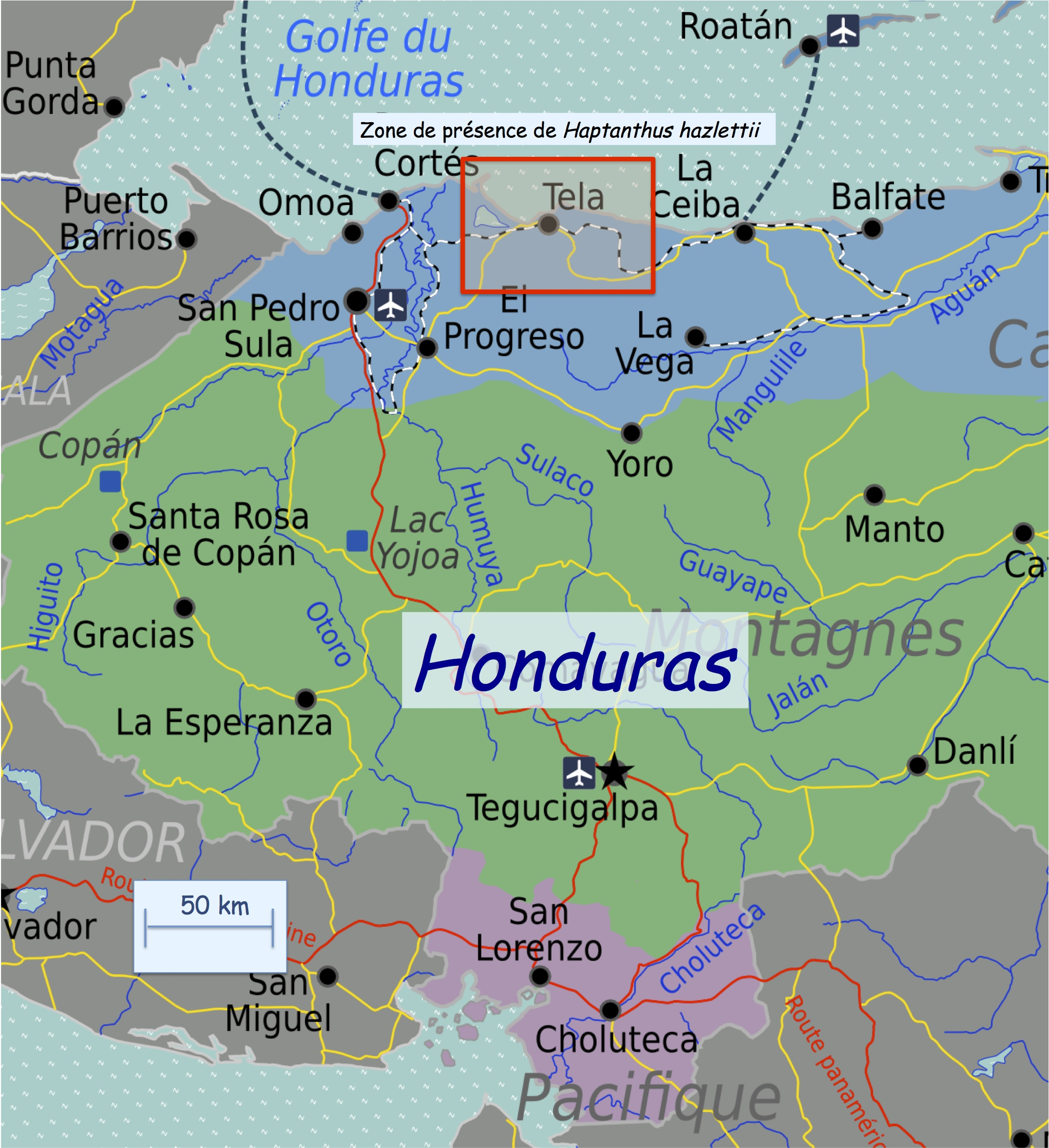 Area in Honduras where Haptanthus hazlettii has been found alive (map from Wikicommons)